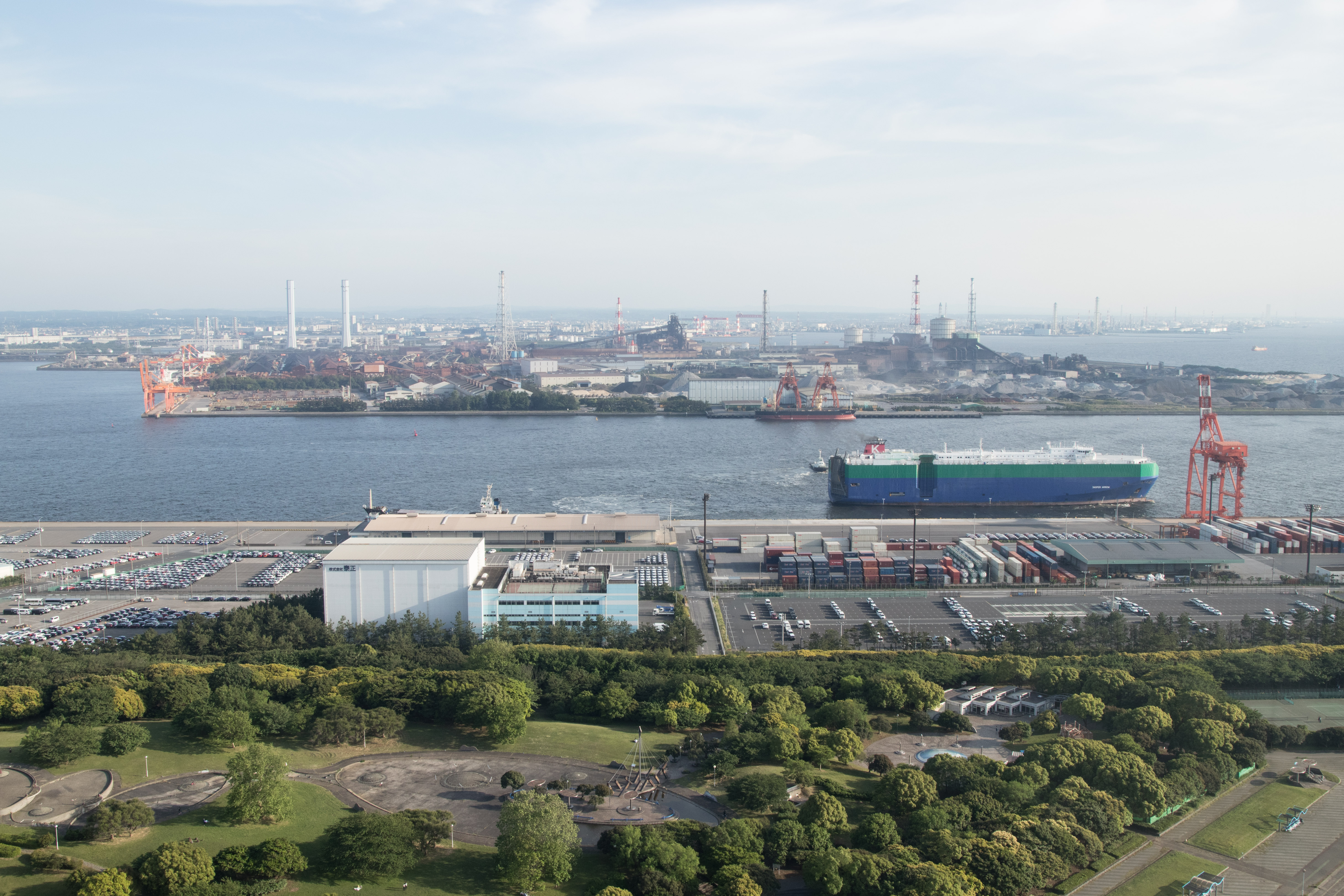 Keiyo Coastal Industrial Region, Chiba Pref., Japan